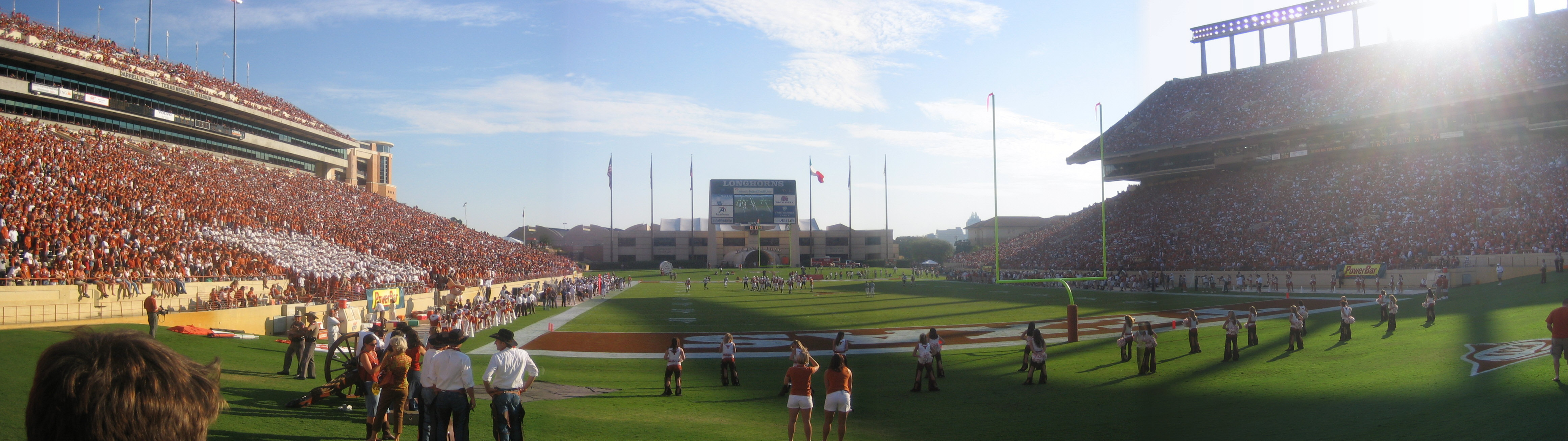 Panorama of Texas Memorial Stadium, a game between the home Texas Longhorns and the Colorado Buffaloes on October 15, 2005. Texas won 42-17.